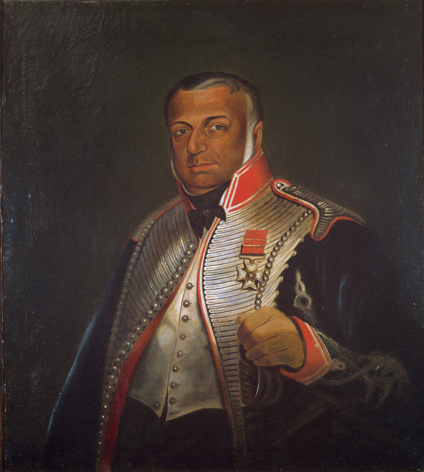 Colonel James Skinner CB, 1st Regiment of Local Horse, Oil on canvas by an unknown artist, a copy of the portrait by William Melville, 1836, in the vestry of St James's Church, Delhi. The Anglo-Indian soldier James Skinner (1778-1841) was the son of a Scottish officer in the East India Company's service and a Rajput lady. Formerly an officer in the Maratha Army, Skinner raised two cavalry units for the British, later known as 1st and 2nd Skinner's Horse. Nicknamed 'The Yellow Boys' for their flamboyant saffron-coloured uniforms, they were famous for their horsemanship and skill at arms. Skinner was well rewarded, enabling him to acquire a town house in Delhi and a large estate at Hansi, Haryana. He maintained a close interest in Indian culture and was an important patron of the arts, commissioning a number of paintings recording his life and exploits. Skinner lived in princely style and liked to be addressed by his Moghul title, 'Nasir-ud-Daula, Colonel James Skinner Bahadur Ghalib Jang - Most Exalted, Victorious in War'. Although he was brought up as a Christian, his household included a number of Hindu and Muslim wives and mistresses. He built a church in Delhi, but also a mosque and a Hindu temple. Such a cross-cultural lifestyle had few admirers among the following generations of soldiers and politicians in India. Towards the end of his life, although promoted to colonel and created a CB by the British, Skinner was conscious that his mixed race status had denied him the highest rewards for his military skills and leadership. National Army Museum Collection, London: NAM Accession Number 1956-02-622-1